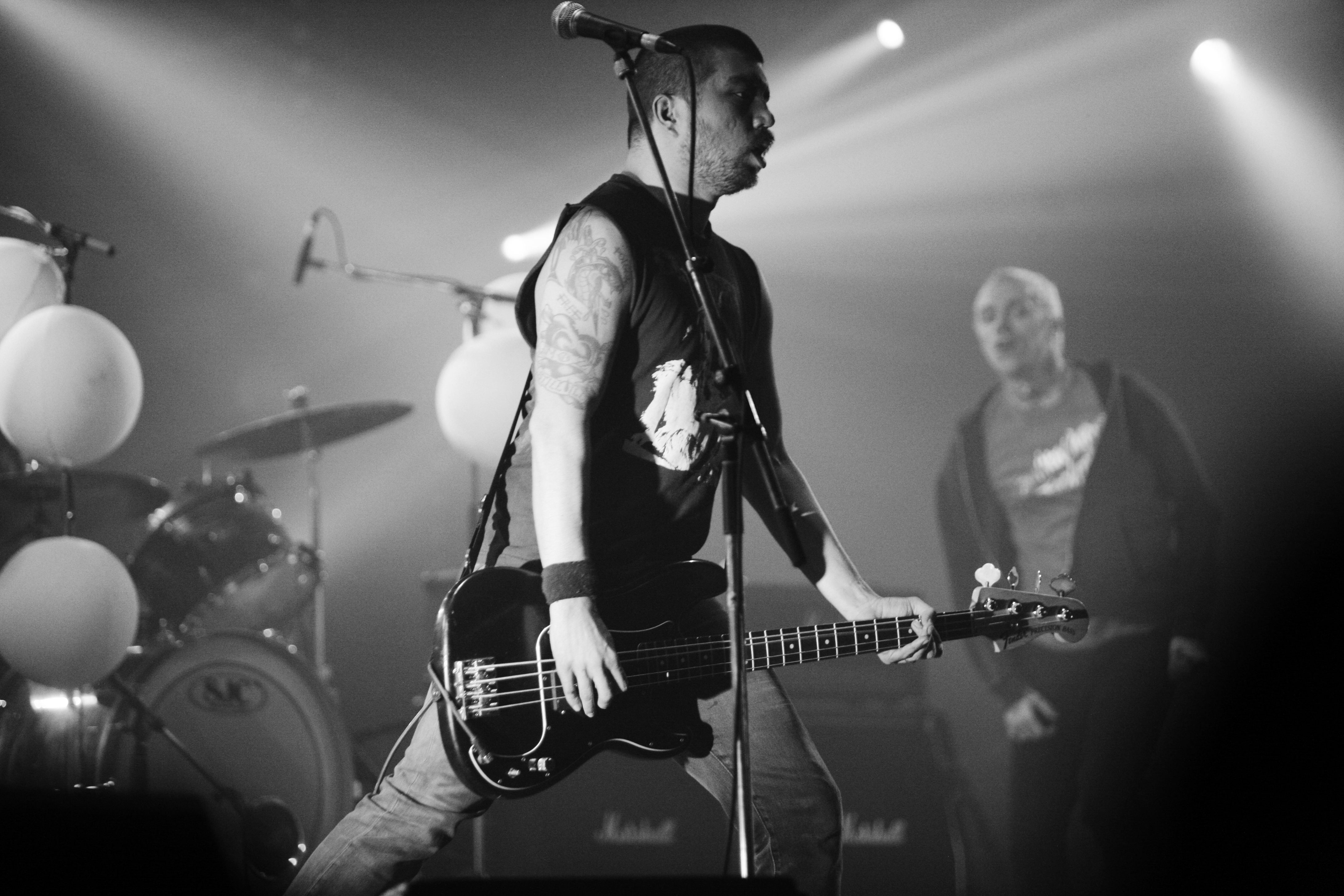 Converge at the Eurockéennes of 2007